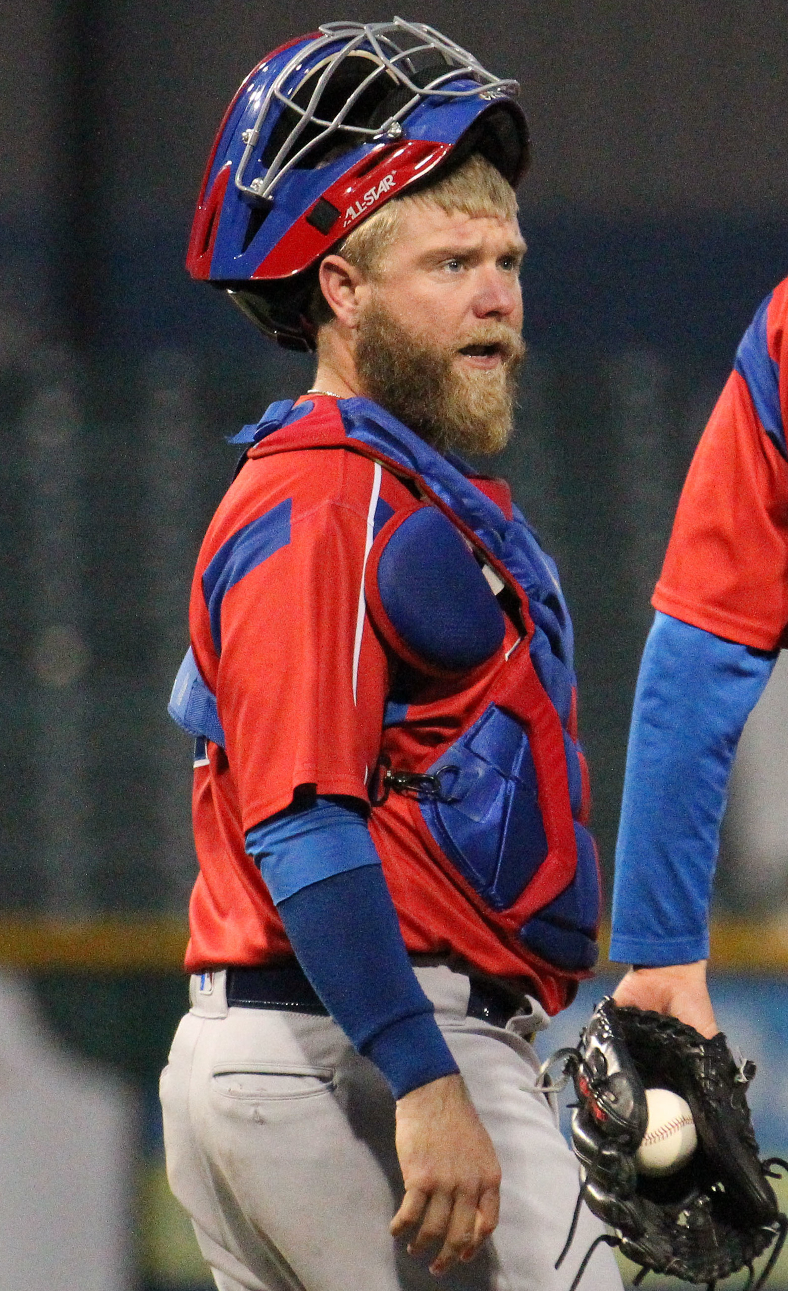 Taylor Davis and Matt Swarmer of the Iowa Cubs during a 2019 game at Werner Park in Nebraska.